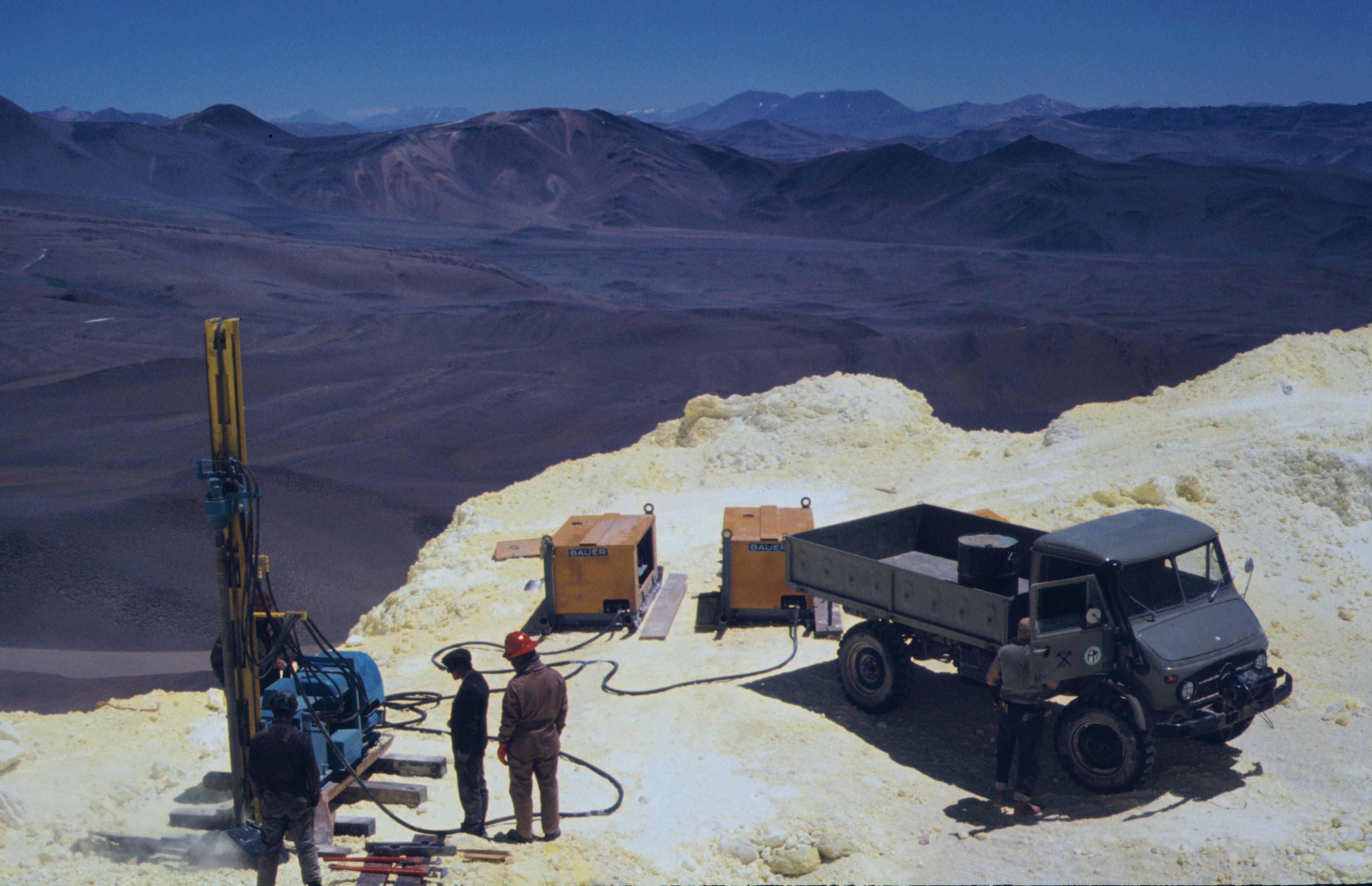 Exploration drilling at 5100 m ASL